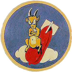 Emblem of the 323d Bombardment Squadron (World War II)